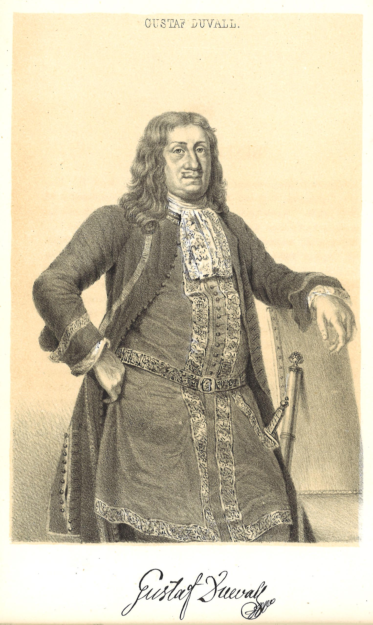 Gustaf Duwall (1630-1692), Swedish baron, civil servant, county governor and "lantmarskalk" (chairman of the estate of nobility).